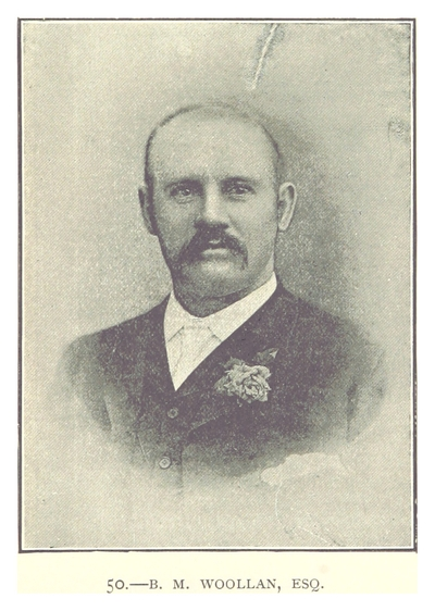 Benjamin Minors Wollan proposed to a meeting of the Exchange and Chambers Company board and members that 'the Johannesburg Stock Exchange should be established. On 8th November 1887 Woollan founded the JSE by providing a facility to conduct trading. The establishment of the JSE at this time made it the oldest stock exchange facility in the subcontinent.